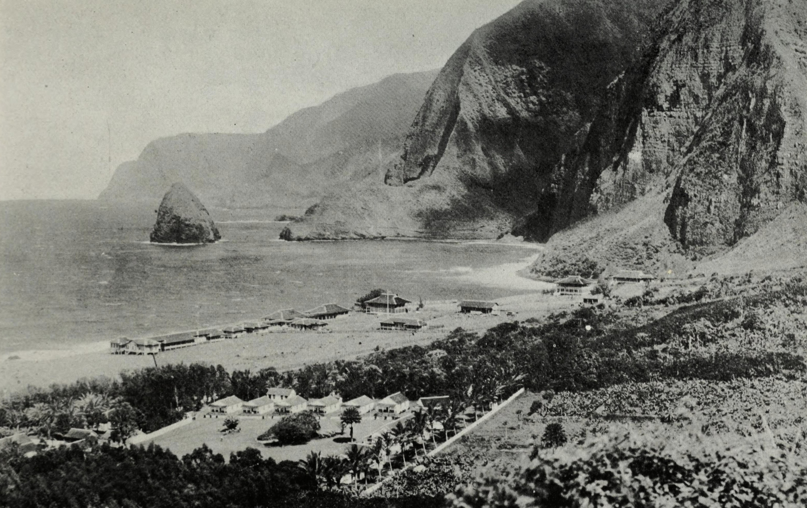 Book description: Kalawao, Molokai, once the "Land of the Living Death," where lepers are now treated with remarkable success by the new chaulmoogra oil specific. Upon this beautfiul peninsulas the stricken live out their lives, one of the most charming scenic localities in Hawaii. Here Brother Dutton, "The Saint of Molokai," has lived for nearly forty years.